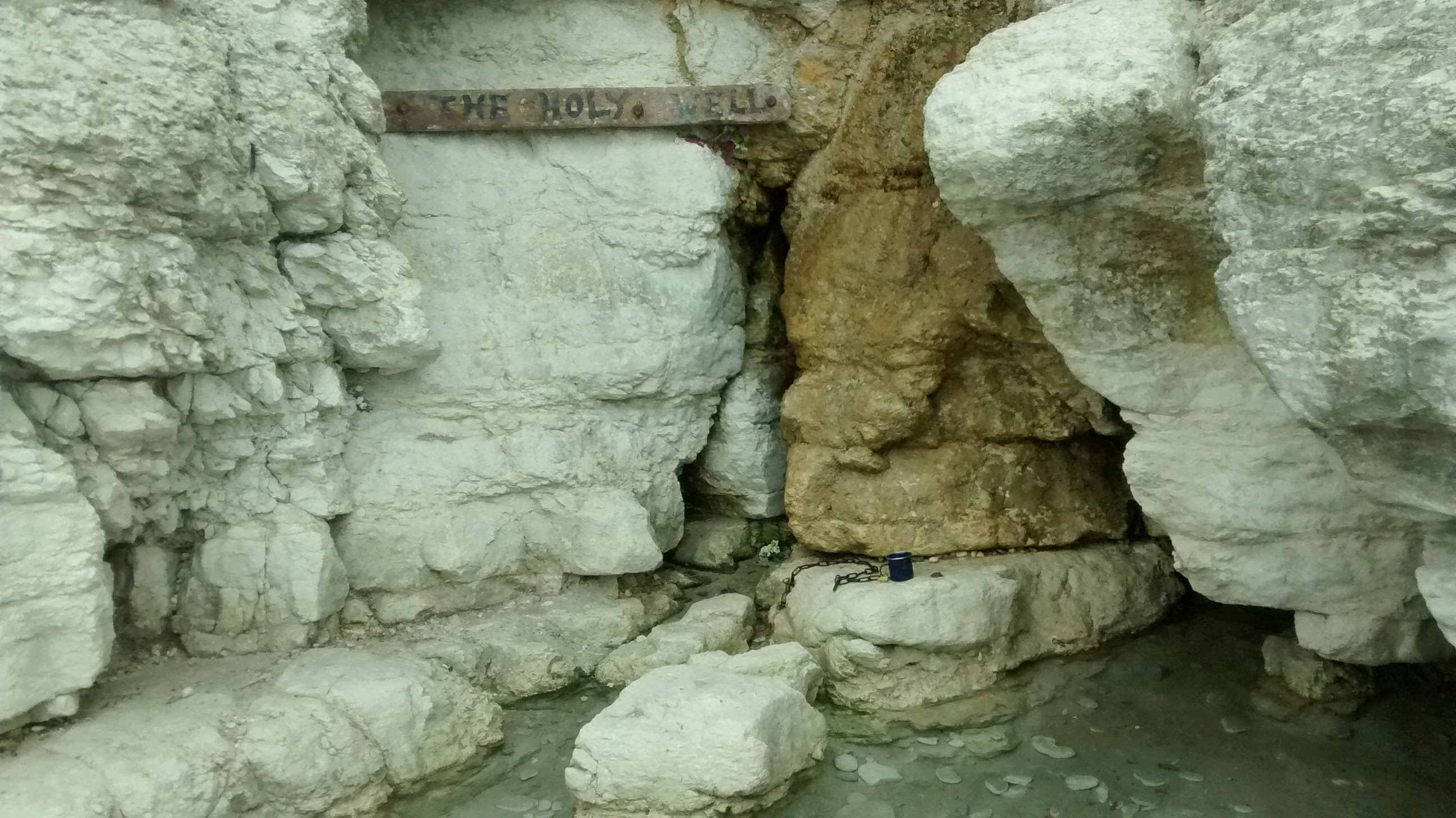 The "holy" well in Holywell, Eastbourne which may have given the name to the area of Eastbourne. Picture taken from the beach in May 2015.